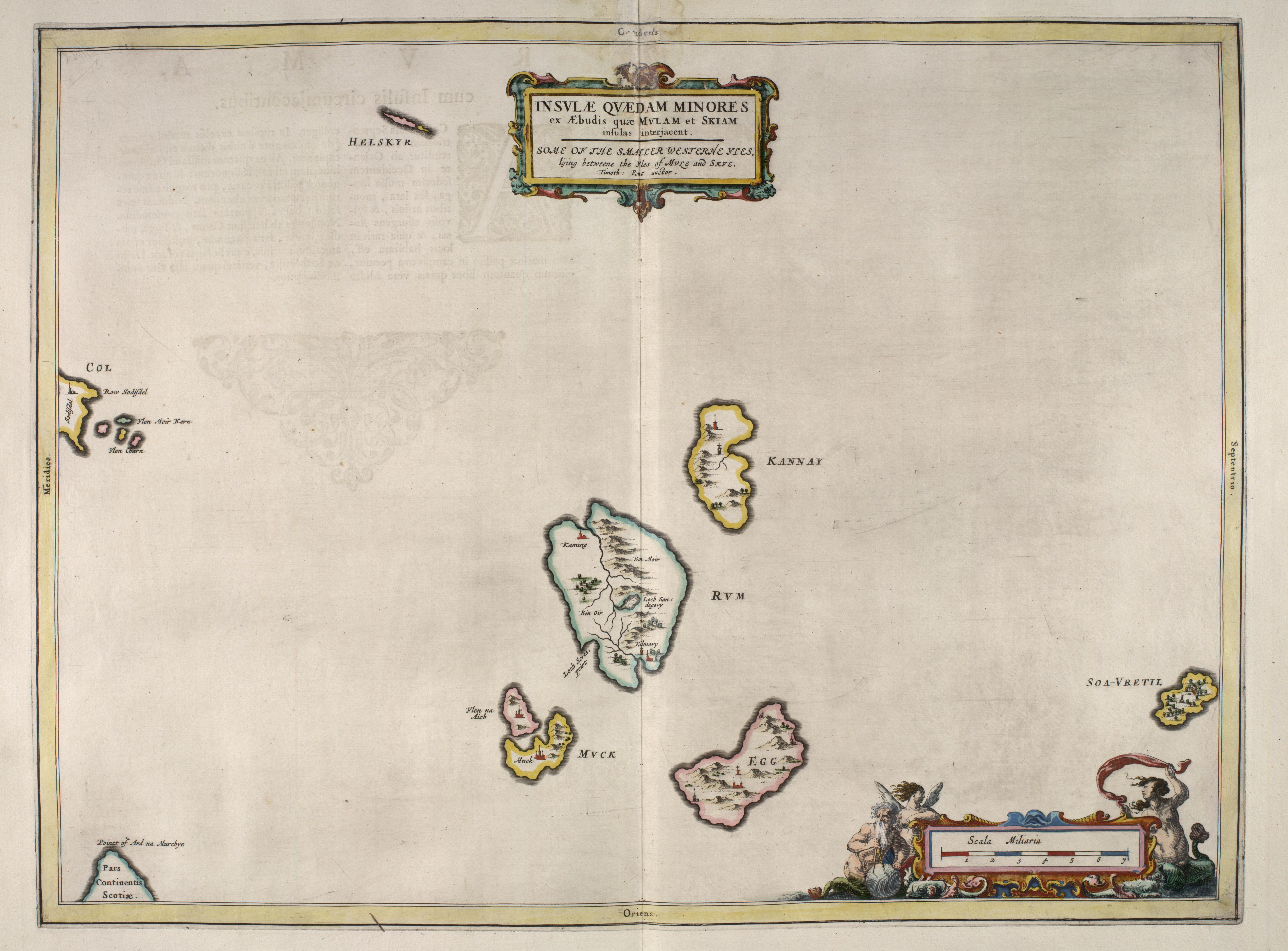 INSVLÆ QVÆDAM MINORES - The Small Isles